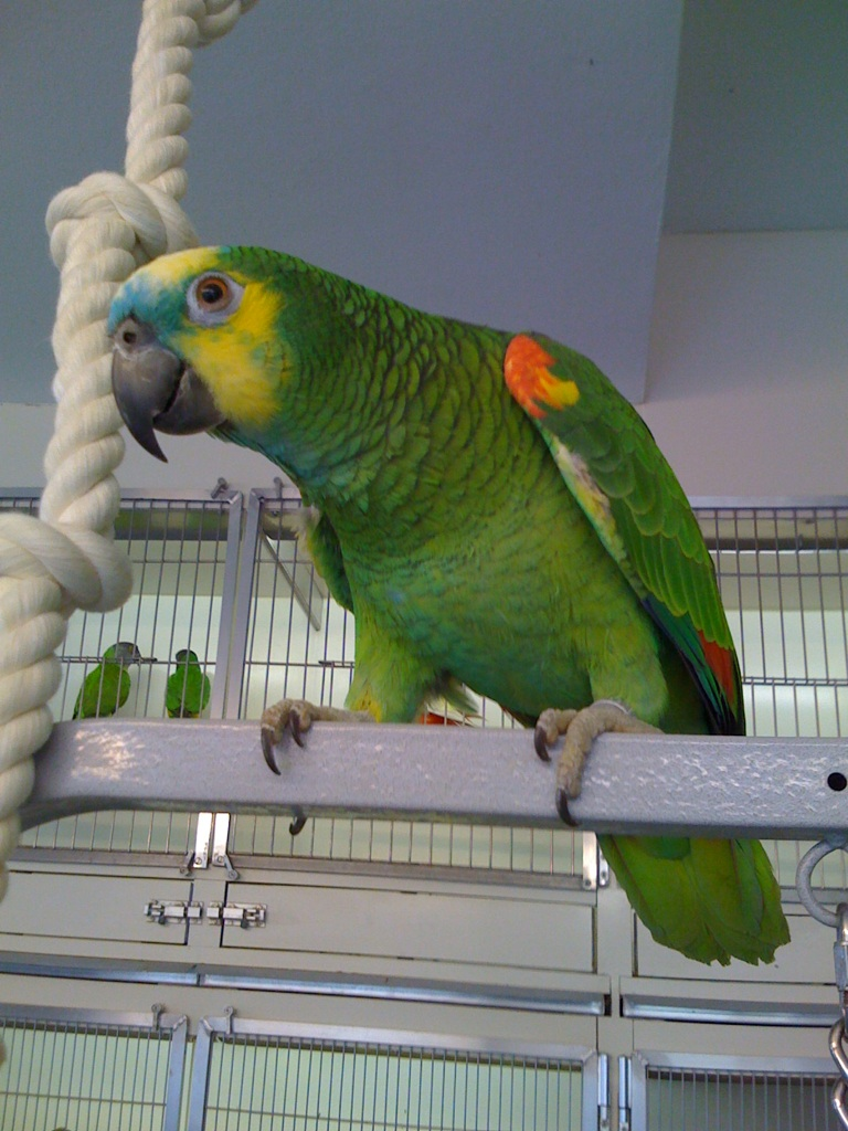 Blue-fronted Amazon (also called the Turquoise-fronted Amazon) in a pet shop. There are also two Senegal Parrots in a cage in the background.